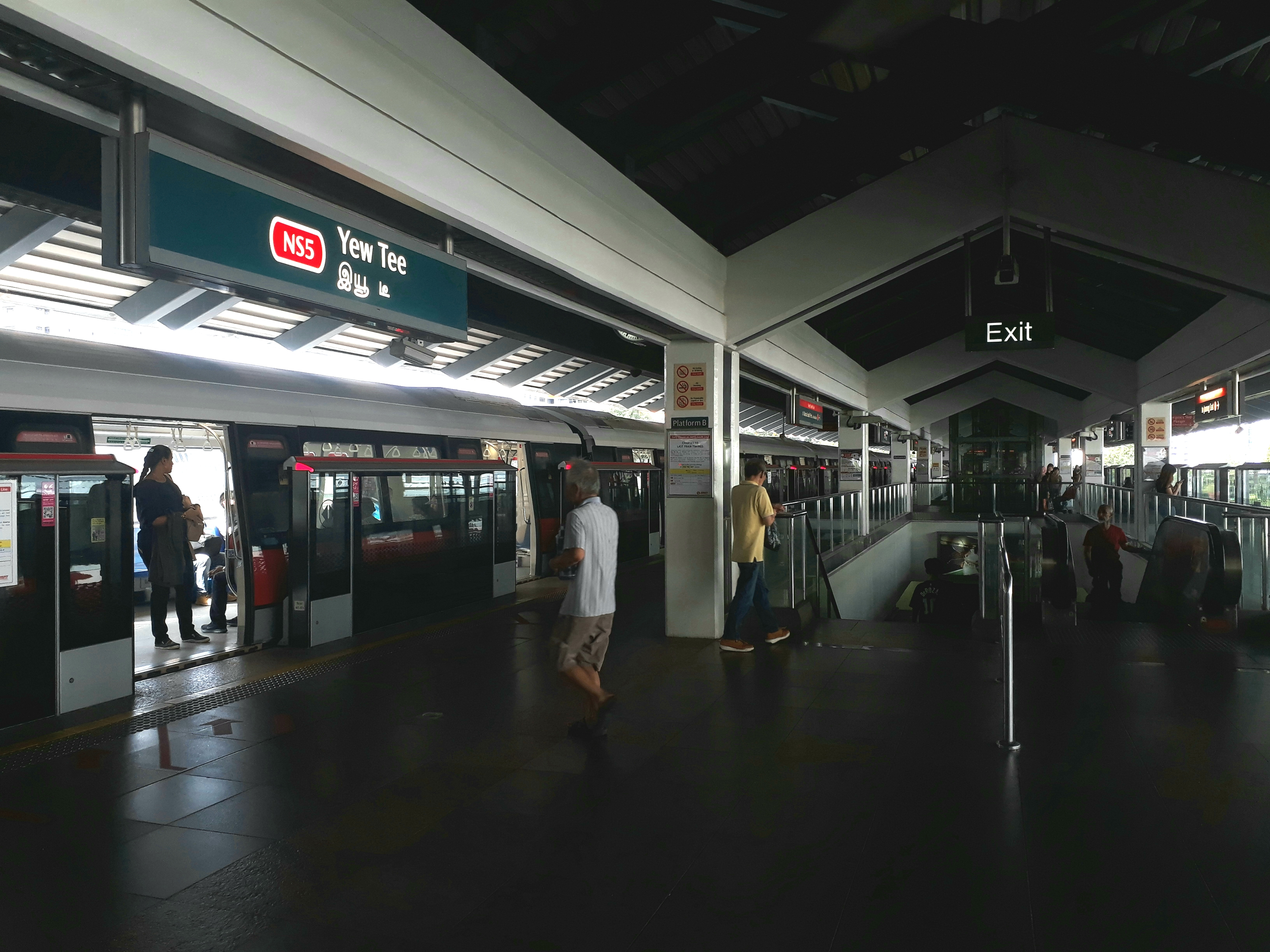 Yew Tee MRT Platform